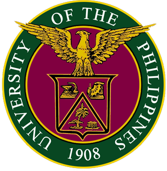 UP Logo and Seal.